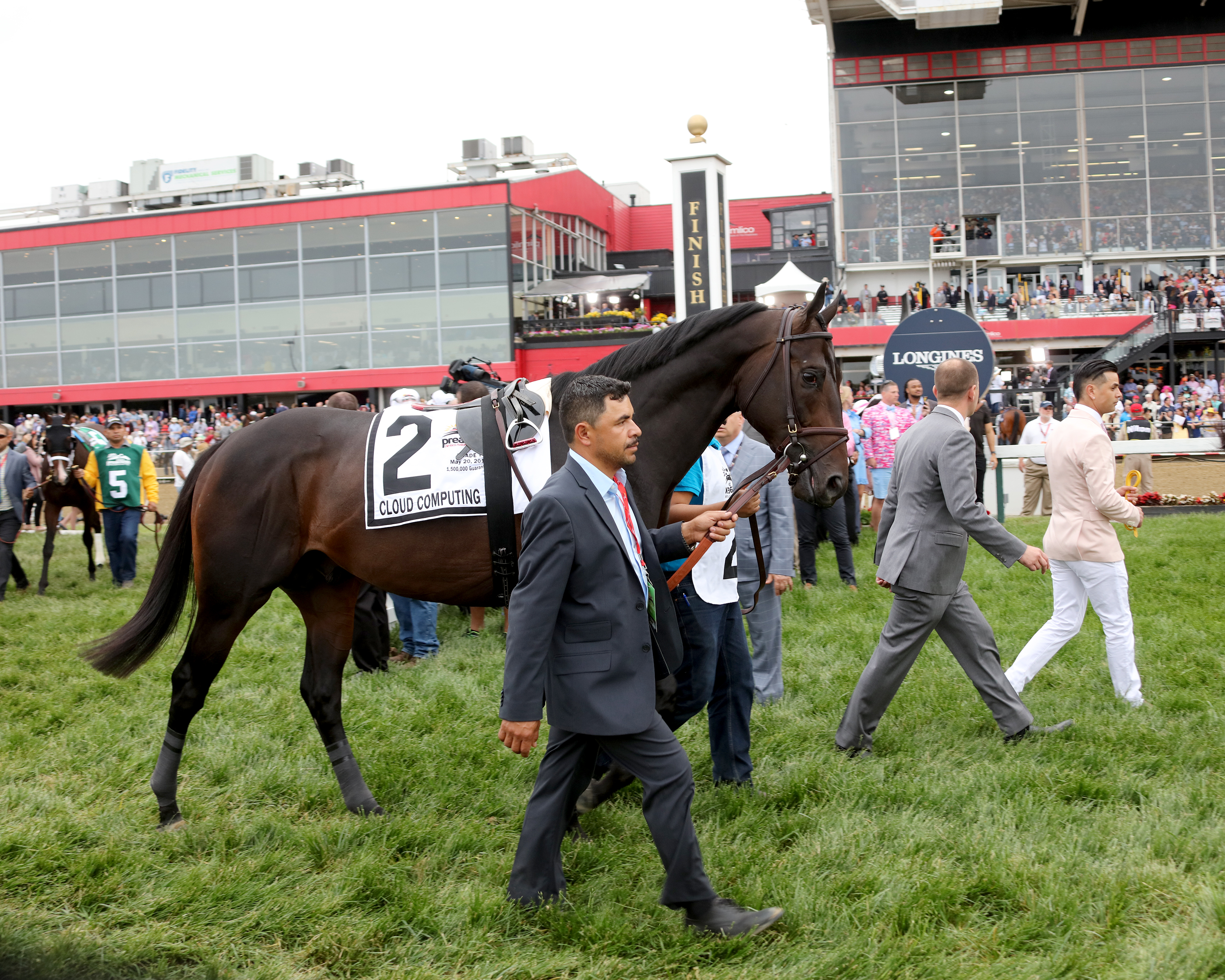 Governor Hogan, Lt. Governor Rutherford, First Lady Yumi Hogan Attend The 142nd Preakness by staff at Pimlico Race Track 5201 Park Heights Ave Baltimore, Maryland 21215 Photos from the 2017 Preakness Stakes. Governor Hogan, Lt. Governor Rutherford, First Lady Yumi Hogan attend the 142nd Preakness. Photos were taken by staff at Pimlico Race Track (5201 Park Heights Ave Baltimore, Maryland) on May 20, 2017.